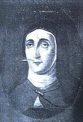 Portrait of a nun, very probably Suor Virginia Maria de Leyva the nun of Monza